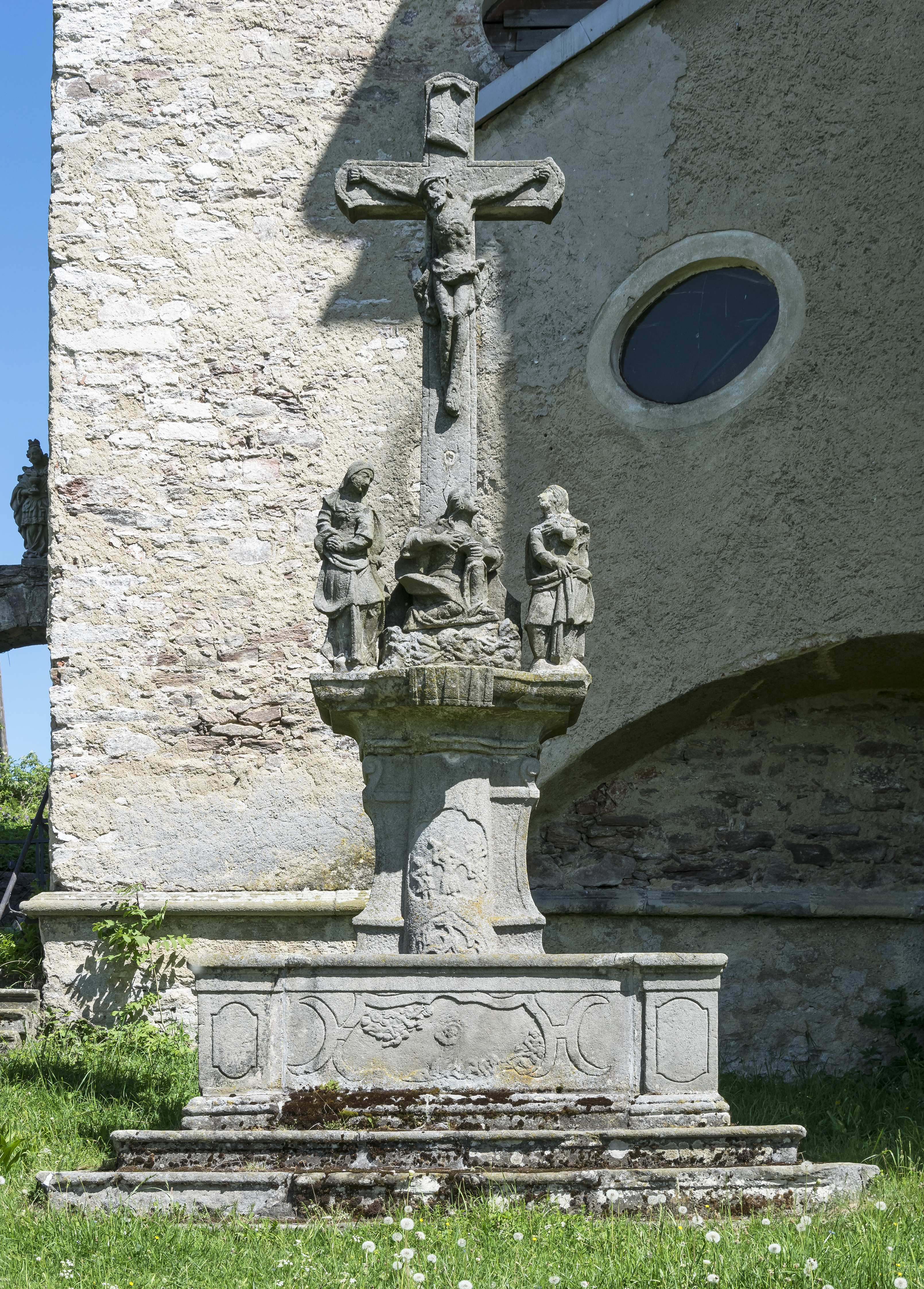 Church of St. Martin in Lesica